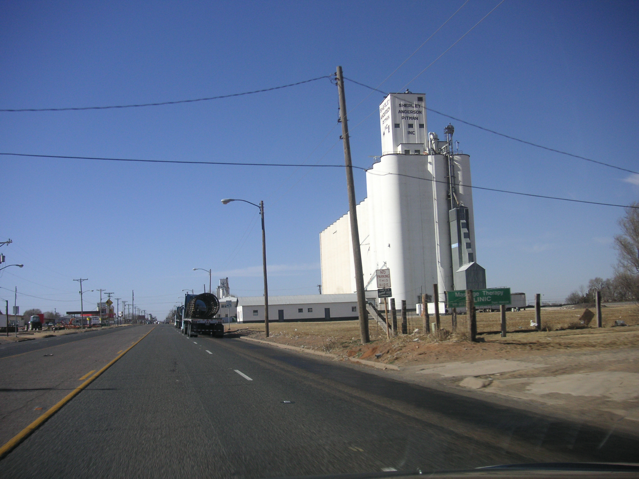 Grain storage in Farwell, TX